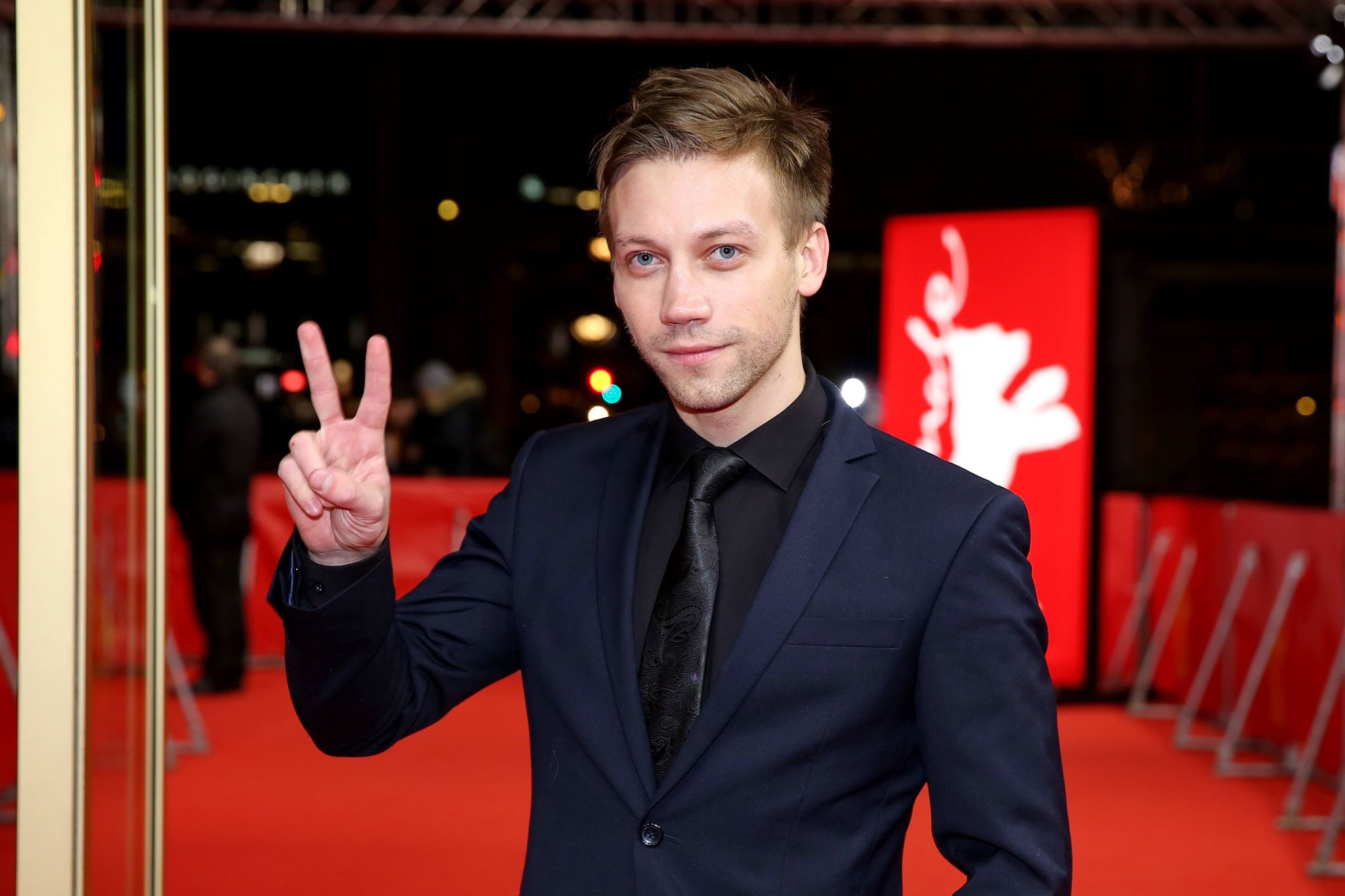 Aleksandr Kuznetsov attending the premiere of "Acid" at the 69th Berlin Film Festival 08.02.2019